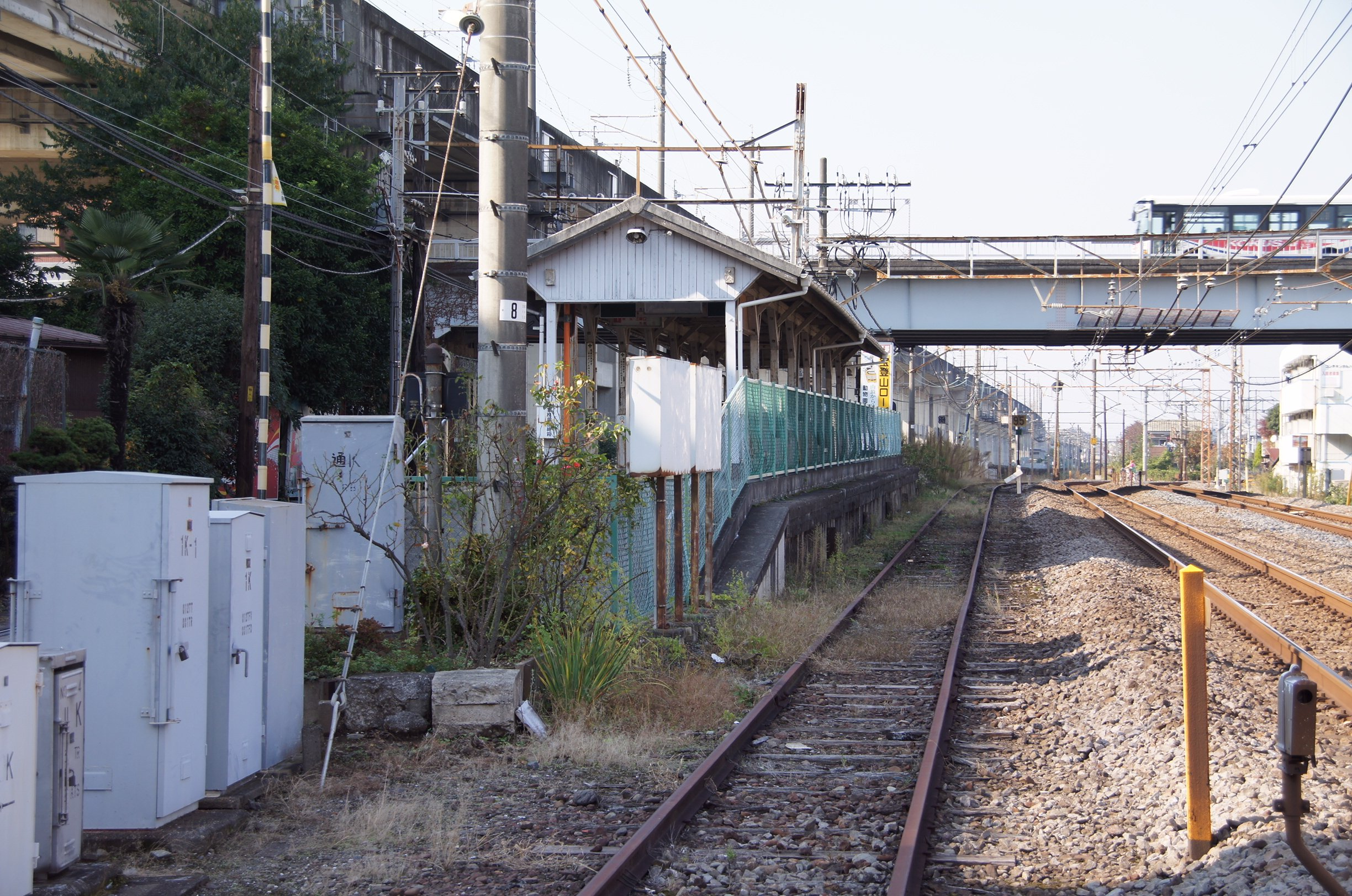 The disused track of the former Tobu Kumagaya Line at Kami-Kumagaya Station on the Chichibu Main Line in Saitama, Japan